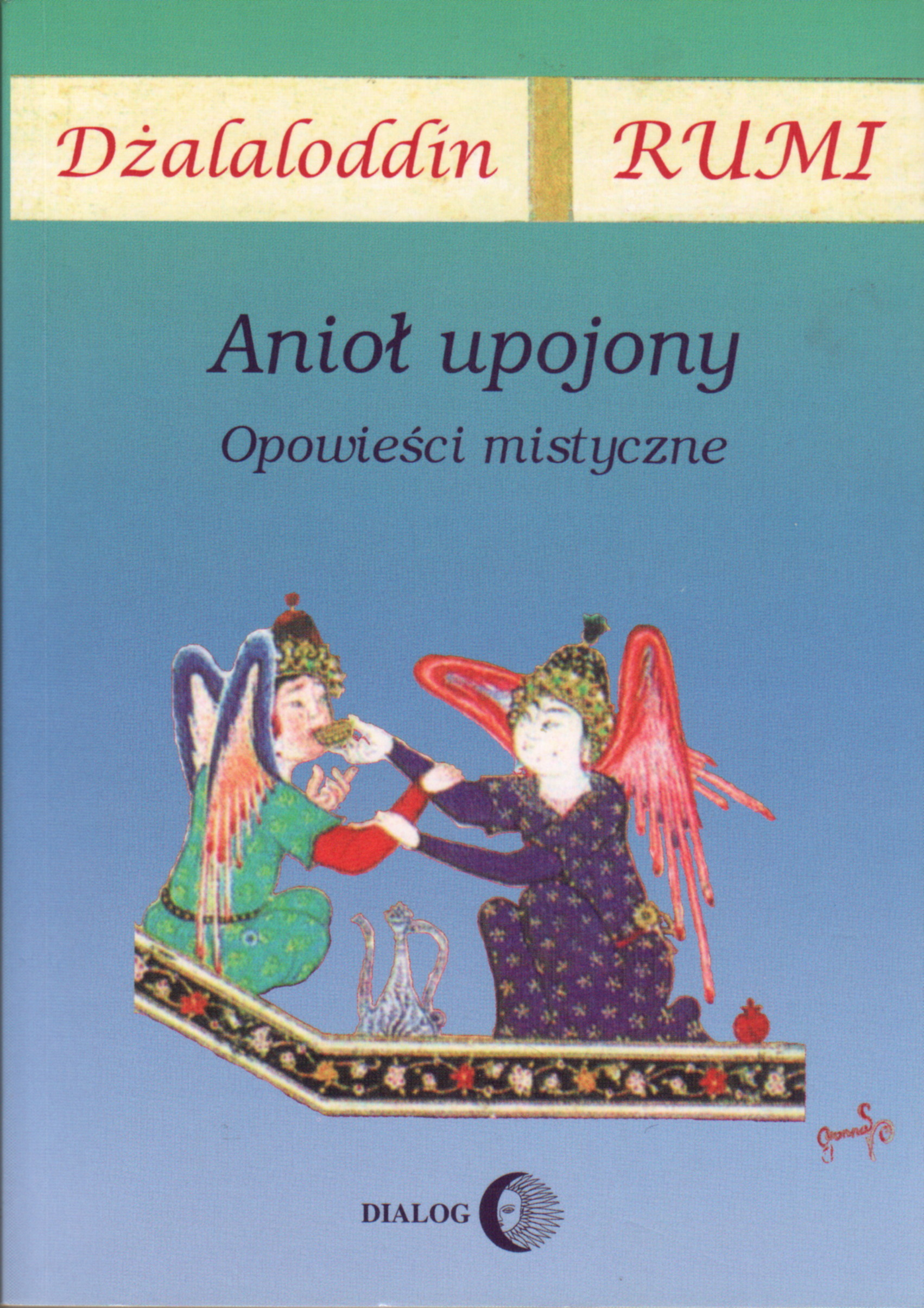 Cover of the book "Anioł upojony. Opowieści mistyczne" (The Enchanted Angel. Mystical Tales), being translation from the original Persian into Polish of 33 tales from "Masnawi-ye Ma'nawi" by Iranian mystic Jalaloddin Rumi, Warsaw 2009.